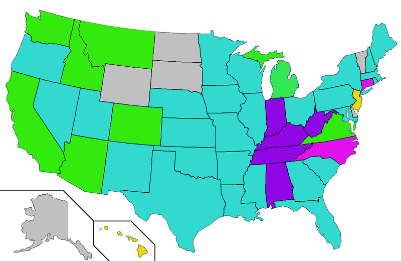 Legend: Independent commission Politician commission Passed by legislature with gubernatorial approval Passed by legislature, governor plays no role Passed by legislature, simple majority veto override One at-large district